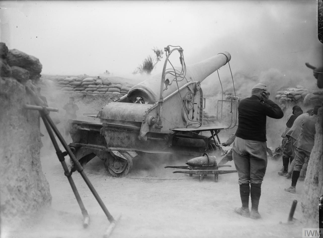 IWM caption : THE GALLIPOLI CAMPAIGN, APRIL 1915-JANUARY 1916. A French 240 mm fortress gun firing towards the Asiatic coast.